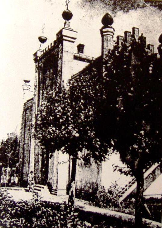 Synagogue in Olsztyn